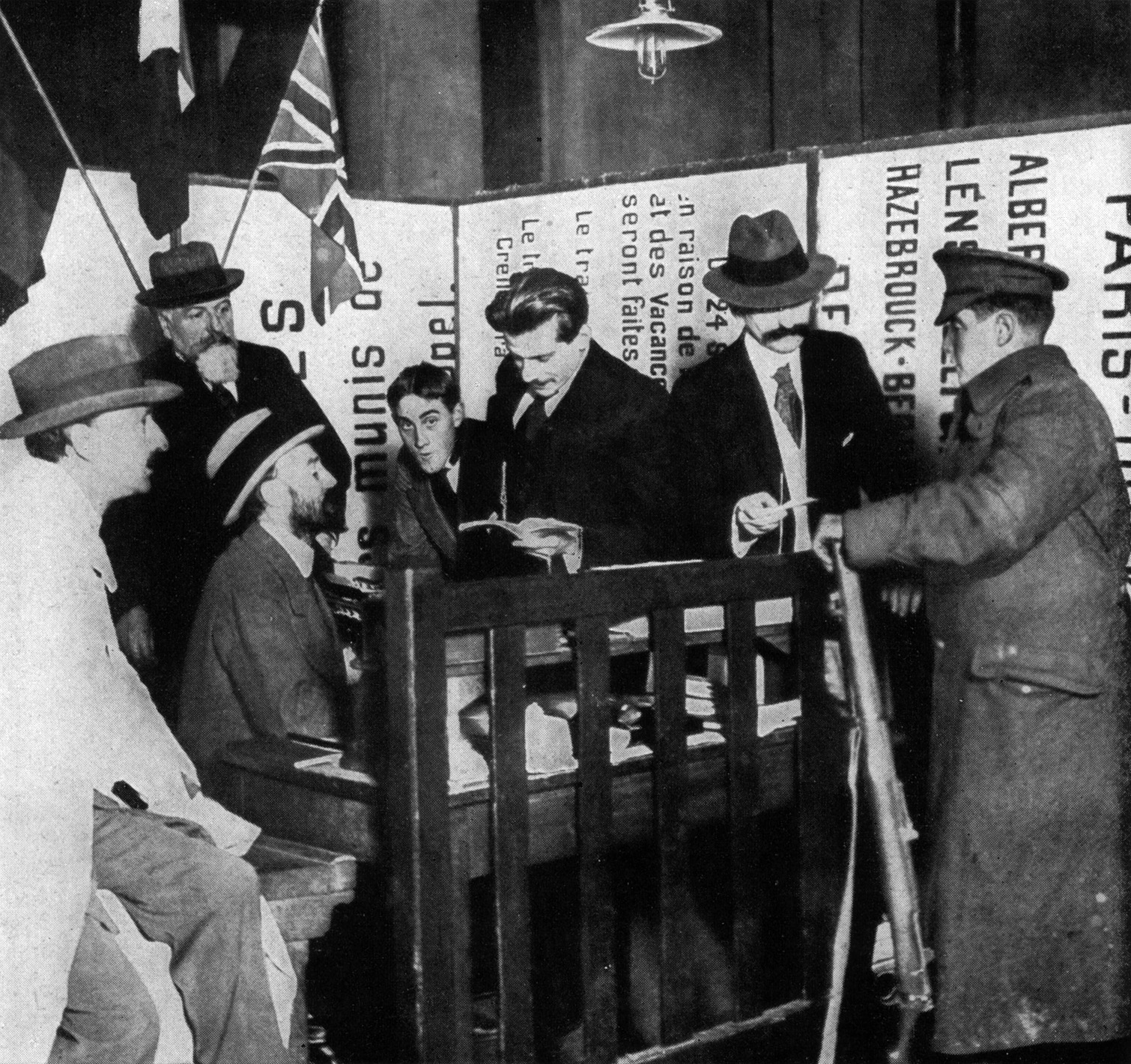 ISSUING A FOOD TICKET TO TOMMY ATKINS. The offices of the Gare du Nord, Paris, have been converted to the uses of organizations for the relief of suffering among the refugees and victims of the war. A British soldier is seen accepting an order for a meal.